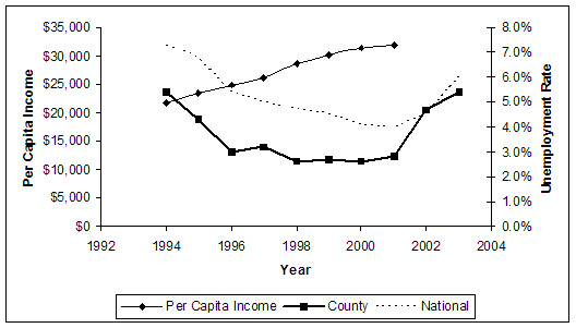 Seminole County per capital income and unemployment rates.